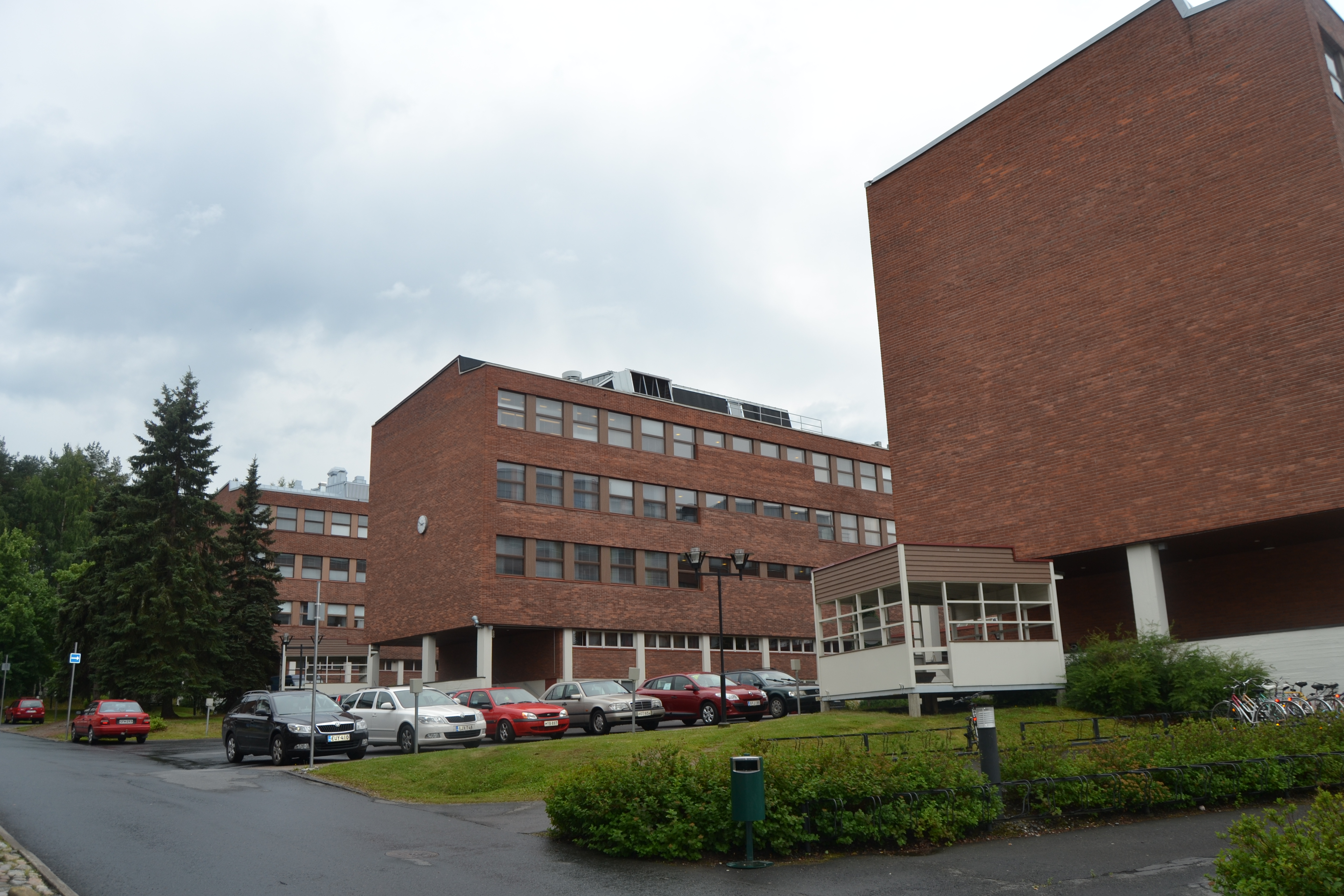 Jyväskylä Vocational School and Seppä Upper Secondary School in Finland